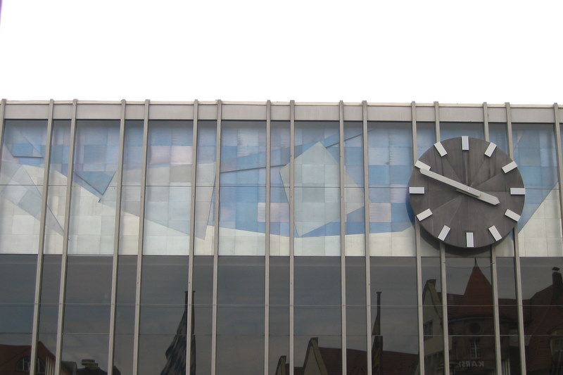 Window by Rupprecht Geiger